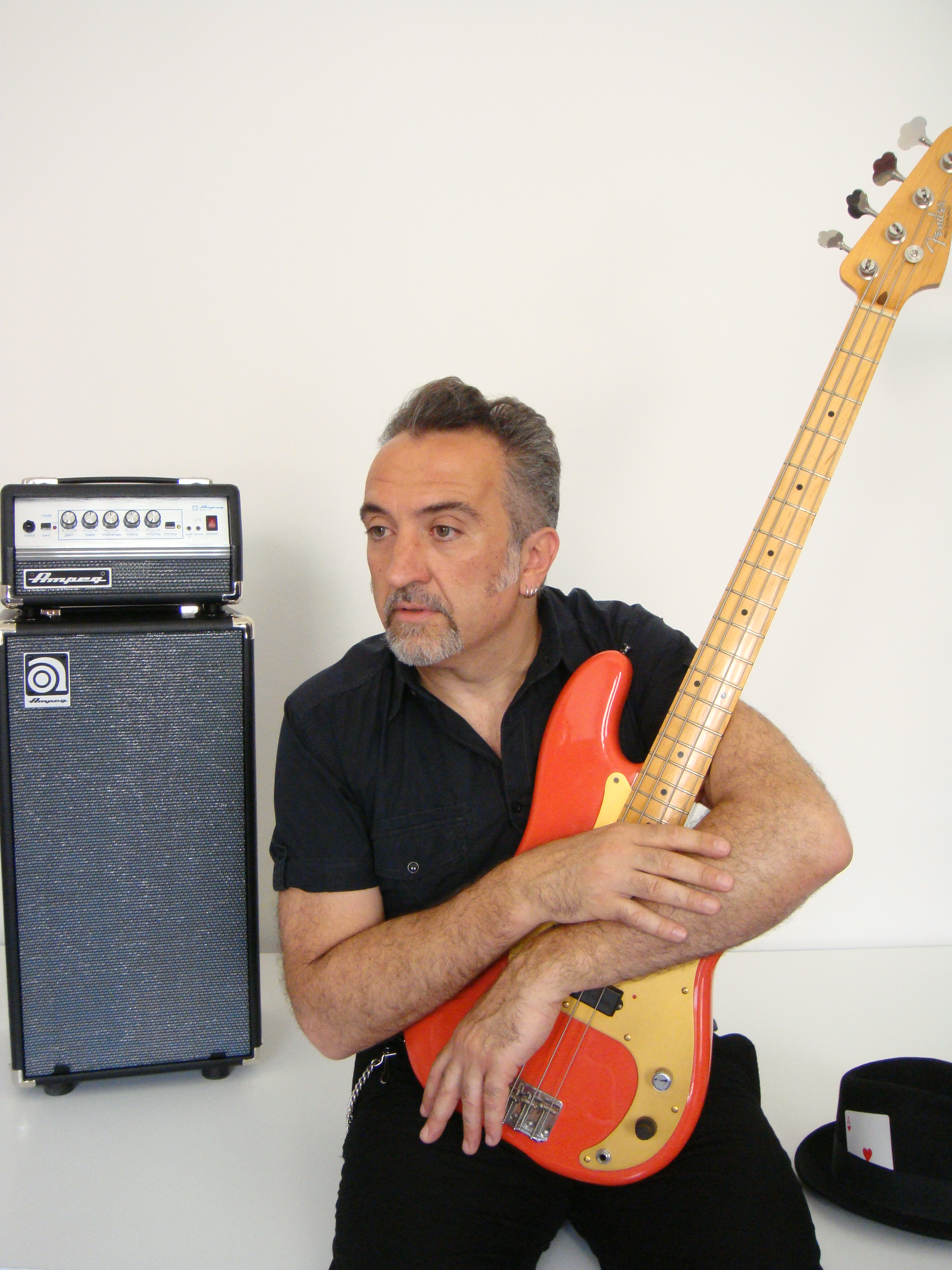 Antonio "Rigo" Righetti in 2010